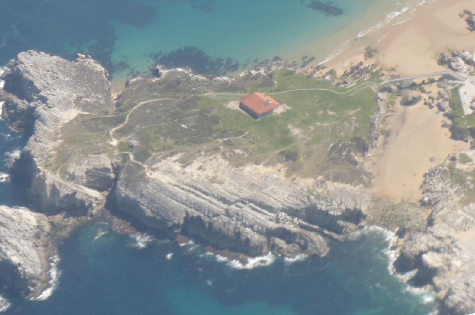 Virgen del Mar Island (Santander, Cantabria)